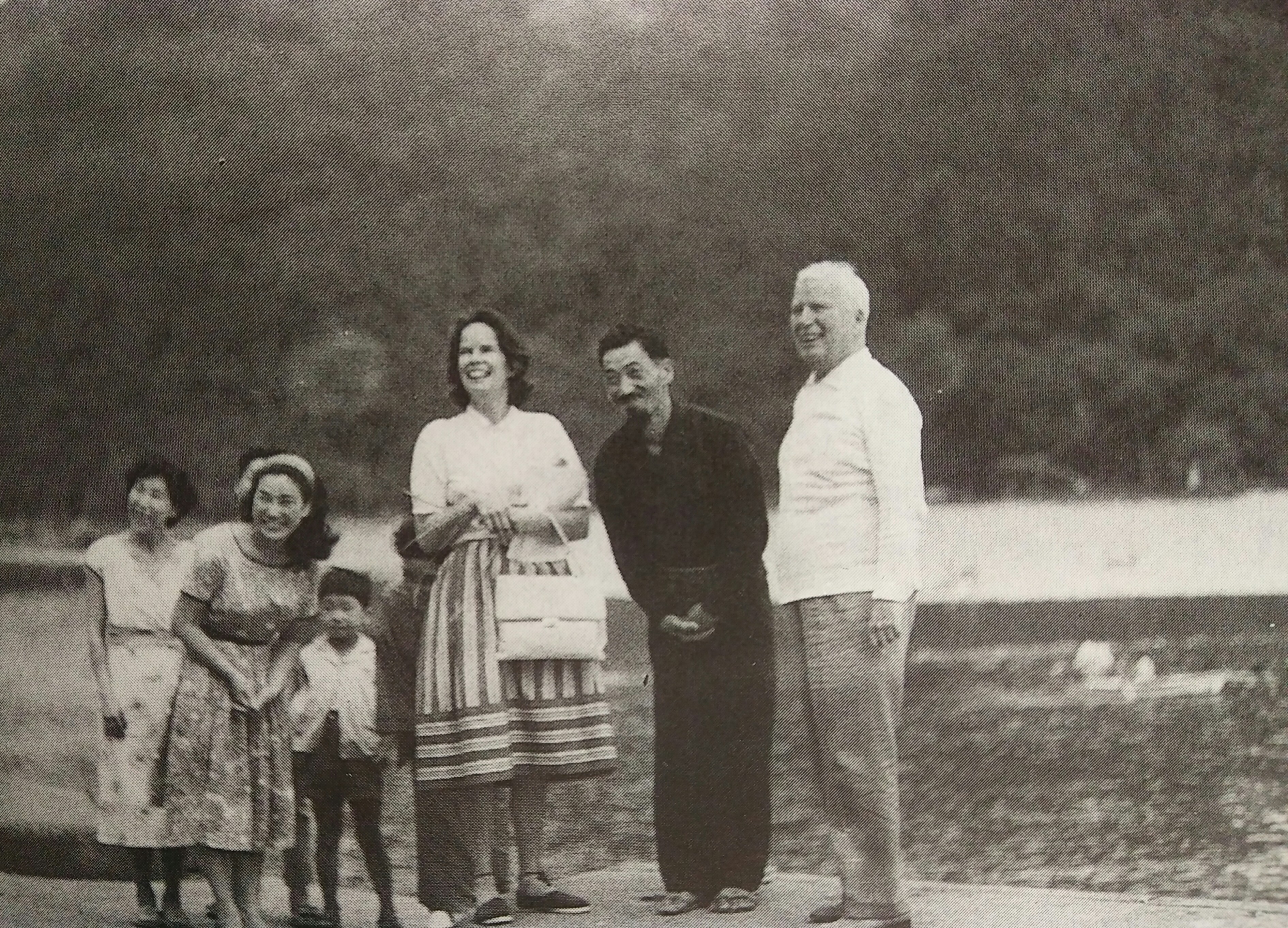 Visited the family and Ukai sightseeing, take a commemorative photo with Usho Chaplin (far right).